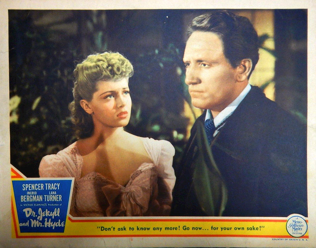 Lobby card for the 1941 film Doctor Jekyll and Mister Hyde. Pictured are Lana Turner and Spencer Tracy.